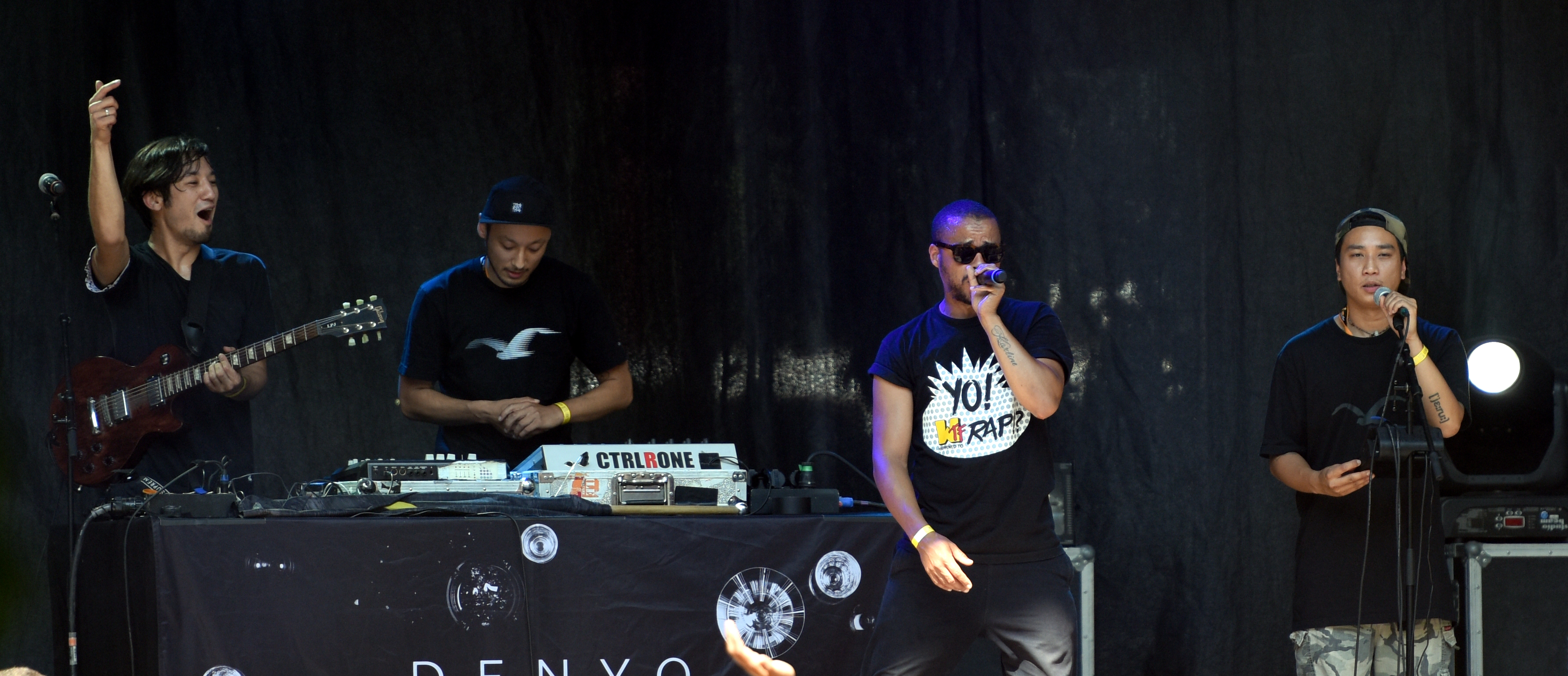 Denyo at the Open Flair festival 2015 in Eschwege, Germany